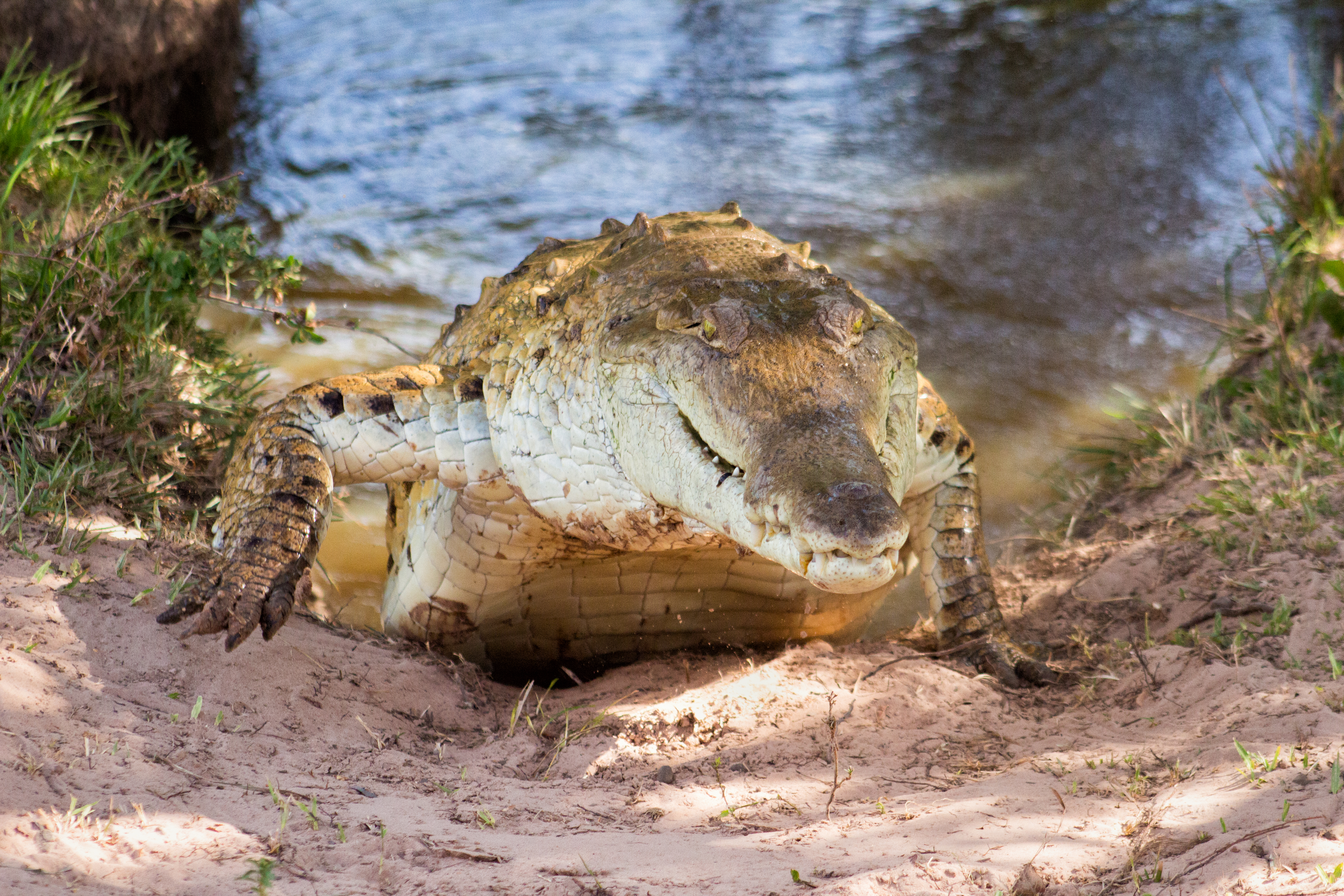 Orinoco crocodile (Crocodylus intermedius), Hato El Cedral